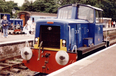 0-4-0 diesel hydraulic Horsa, used in the james Bond movie Octopussy, shunts at County School in the early 1990s.